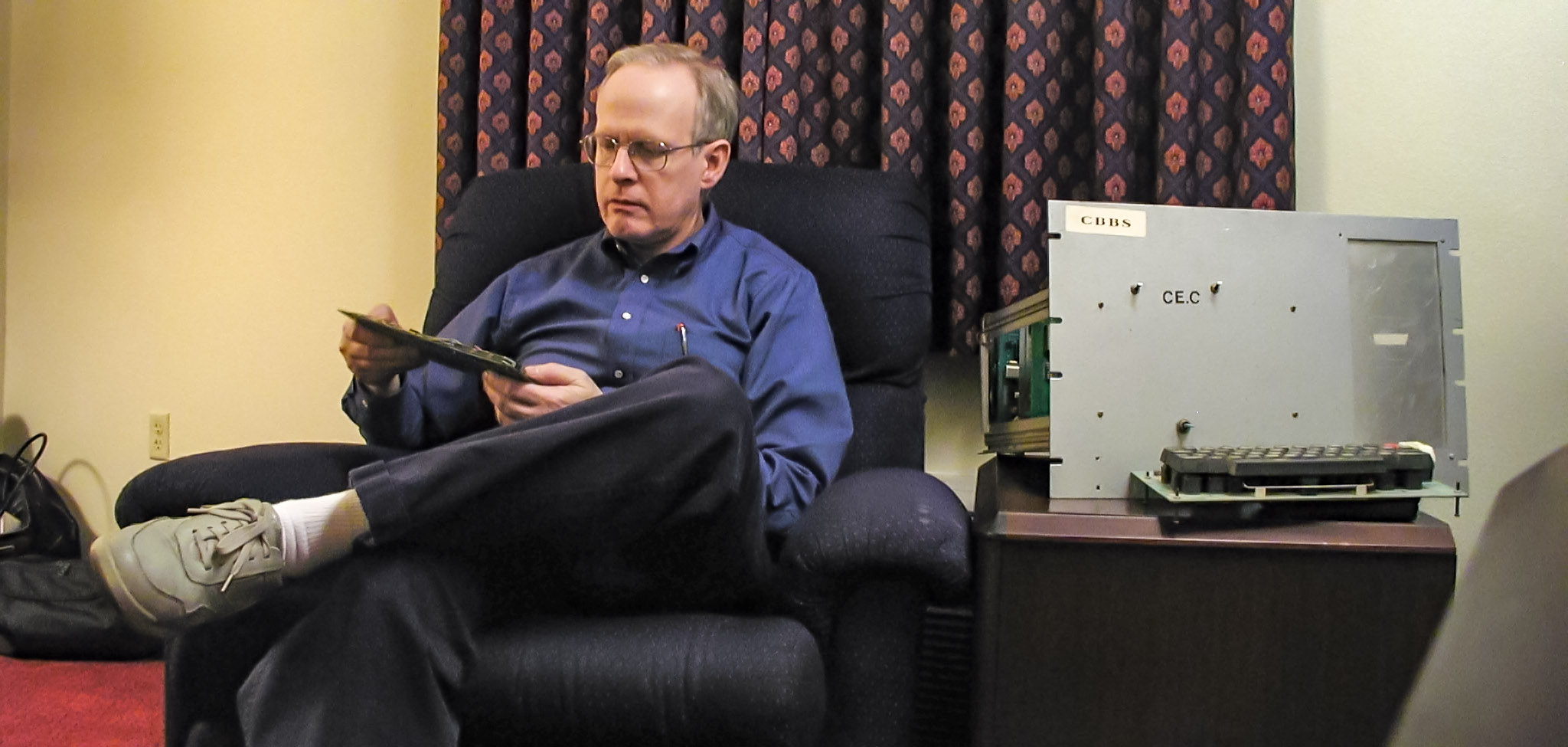 Ward Christensen with CBBS, the first computer bulletin board system